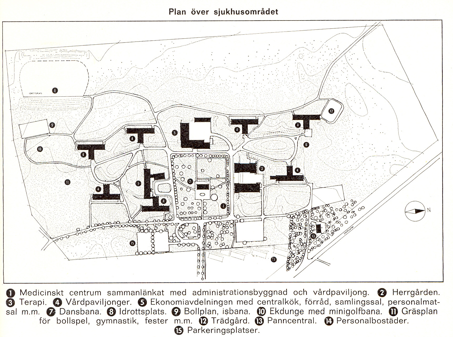 Mellringe Hospital, Örebro, Sweden, map